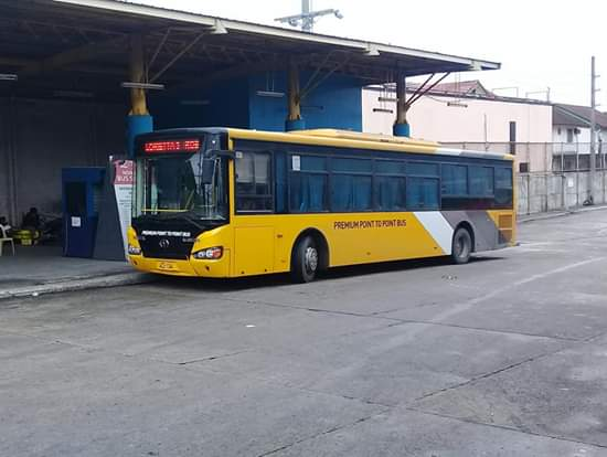 Premium Point to Point Bus - Higer KLQ6129G Operator: Lingkod Pinoy Bus Liner, Inc. Route: Robinsons Novaliches - Robinsons Glorietta